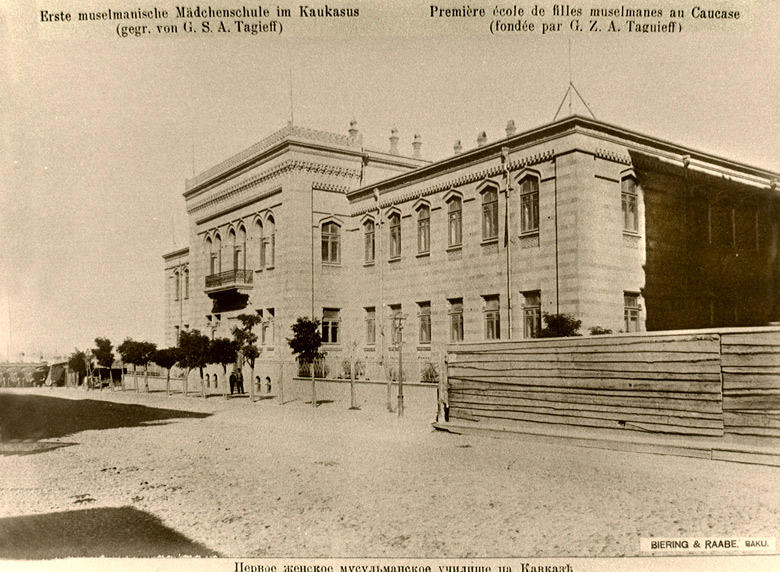 First school for muslim girls in Caucasus